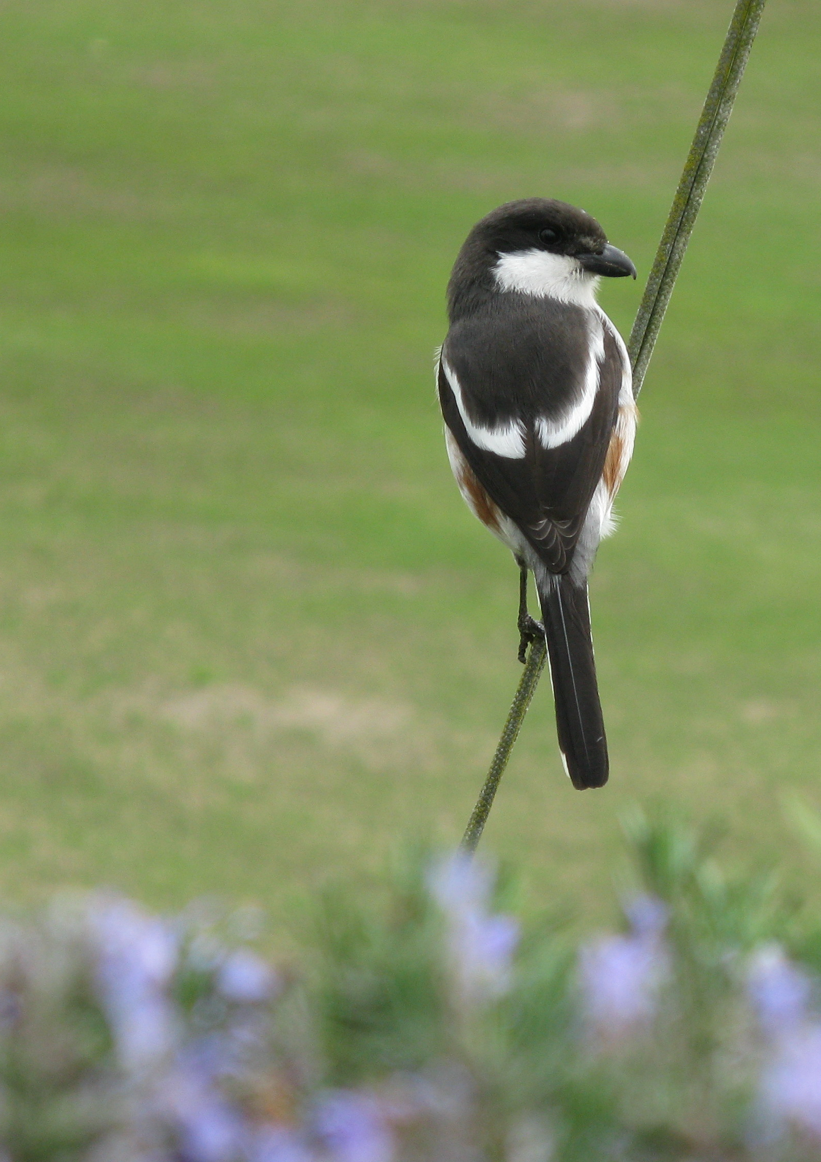 Lanius collaris female, as indicated by the russet patches on the flanks.